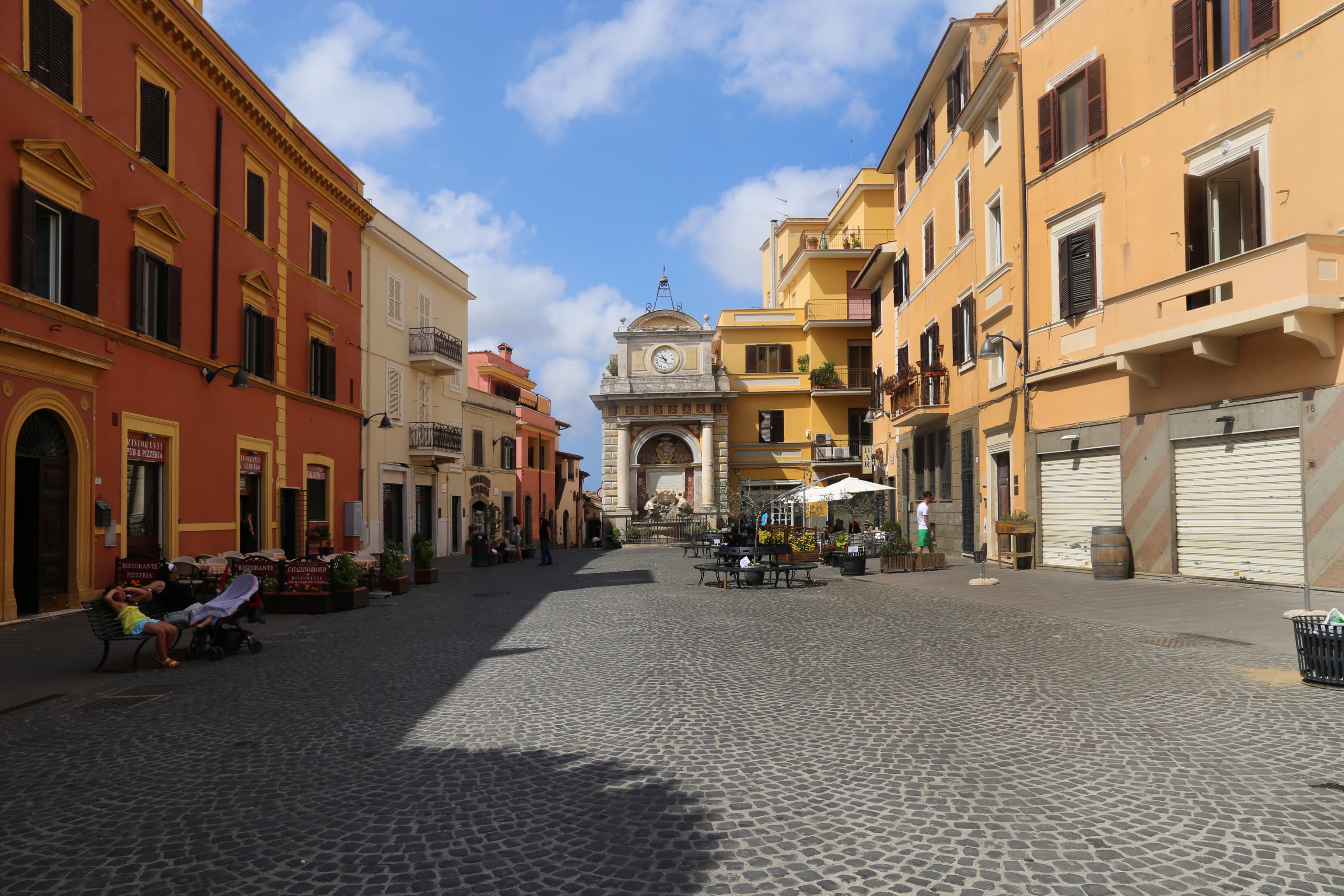 Buildings in Cerveteri